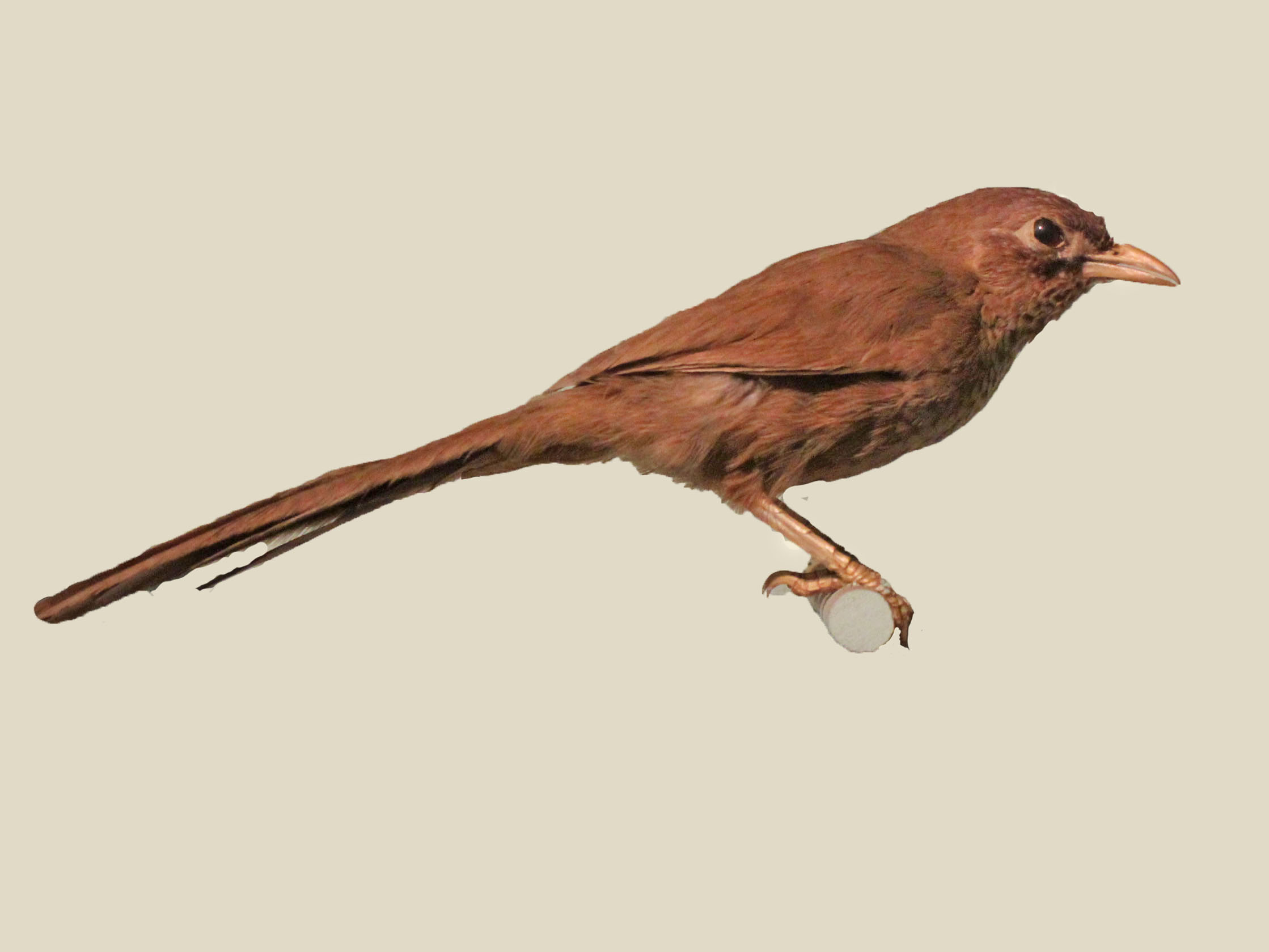 Scaly-chatterer (Turdoides aylmeri). Photograph of a specimen at Nairobi National Museum in Nairobi, Kenya. Eye is unrealistic.